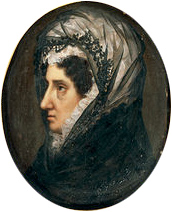 Portrait of Marquise Teresa Cavriani Peieri, oil on wood.